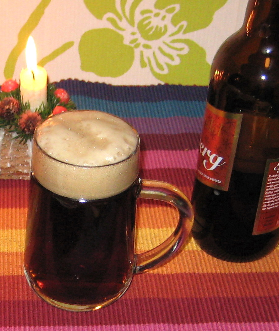 A glass of Christmas beer, of the mark Eriksberg Julöl.